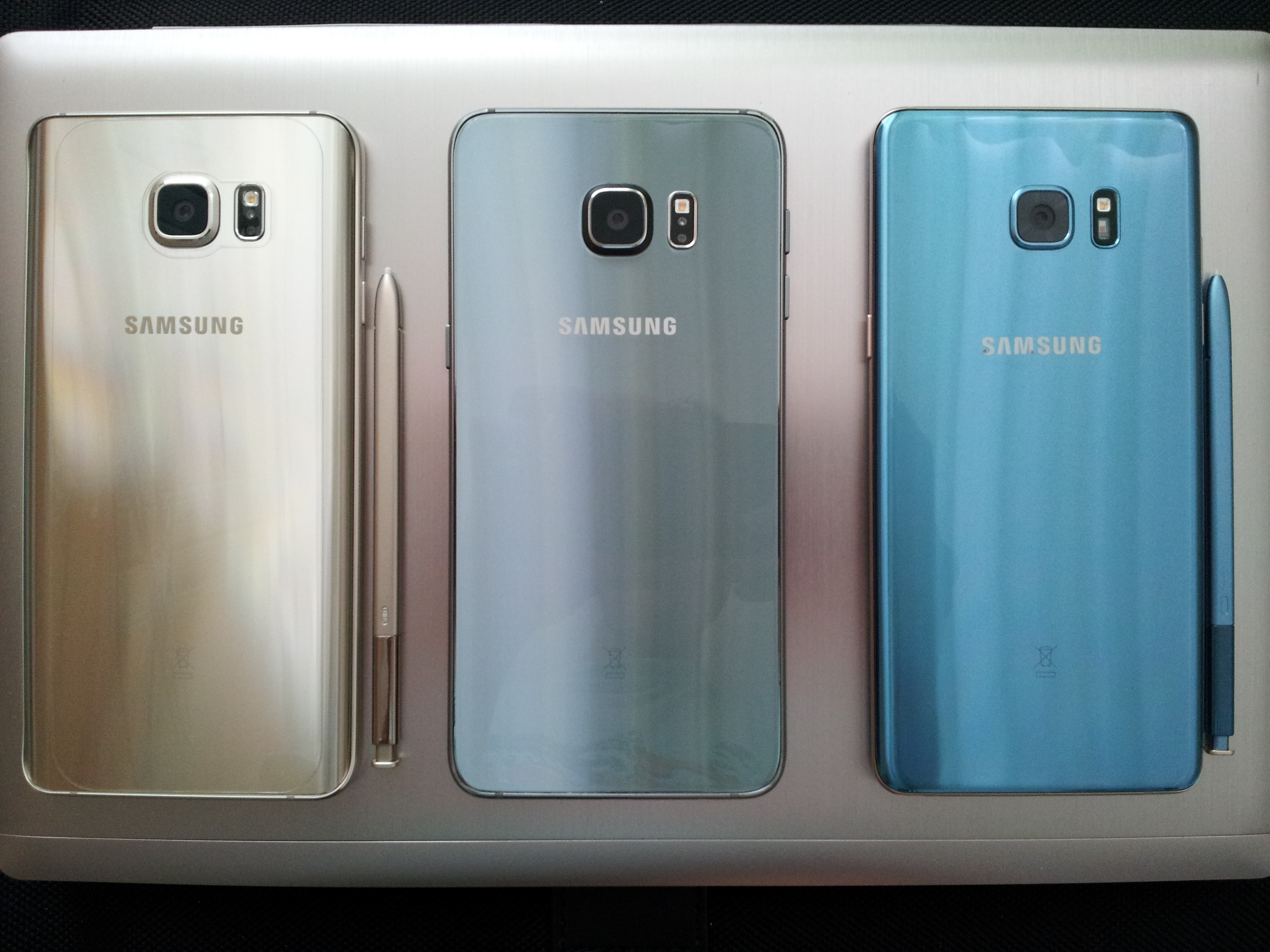 Samsung Smartphones Samsung Galaxy Note 5 (gold) Samsung Galaxy S6 edge+ (silver) Samsung Galaxy Note 7 (blue)